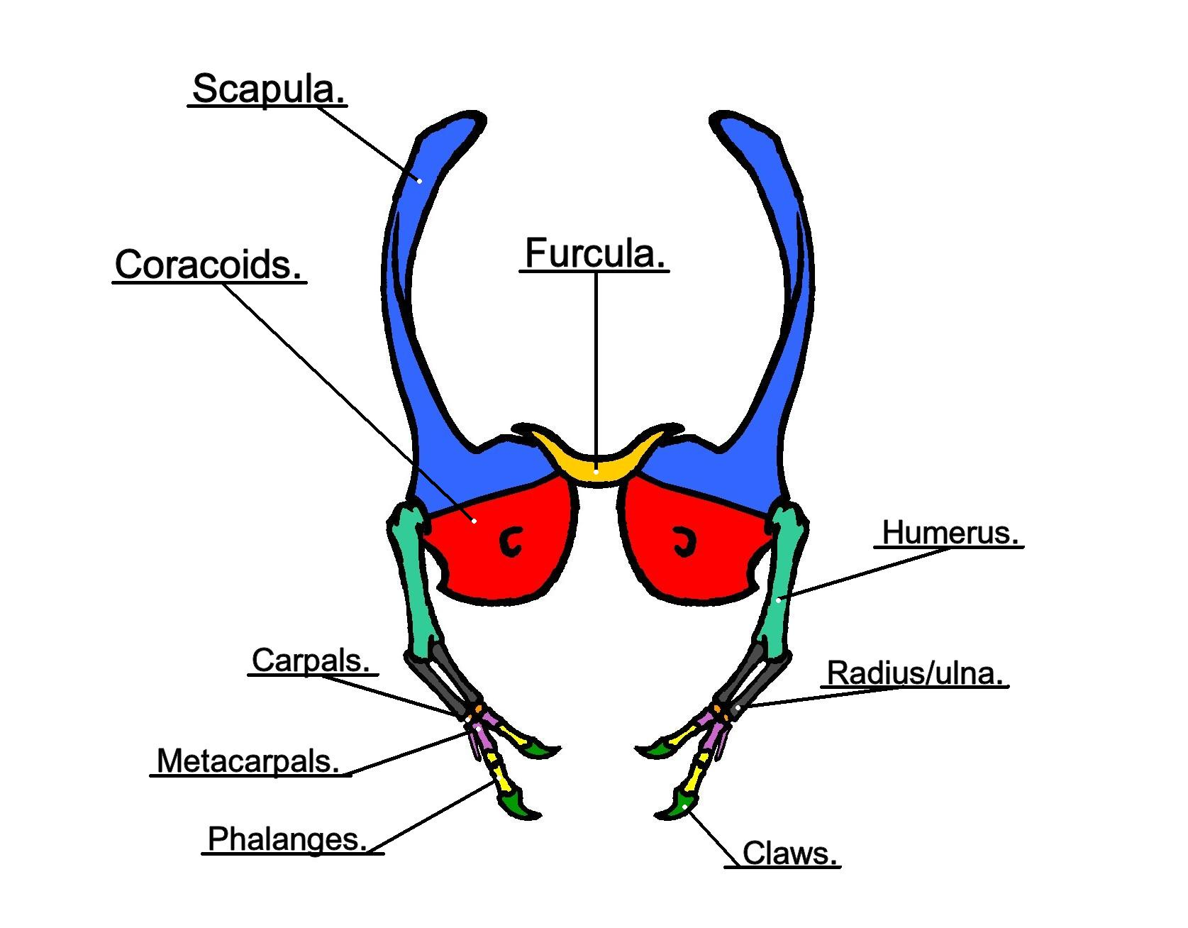 Illustration of the different bones in the forelimb elements of theropod dinosaurs in the tyrannosauridae family ( here based on Tyrannosaurus rex ).